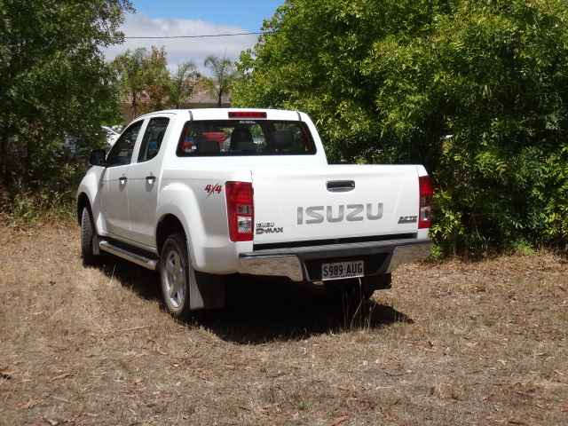 Isuzu as a passenger car brand, officially entered the Australian market in 2008, however Isuzu branded light, medium and heavy duty trucks have been apart of the Australian landscape for decades. All Isuzu passenger vehicles that were sold in Australia up until 2008, were sold under the Holden badge, which only included Utes and SUV's. For years the Isuzu Rodeo/D-Max had been sold in Australia as the Holden Rodeo and when Isuzu entered our market, Holden lost the rights to the 'Rodeo' name and switched to using the 'Colorado' name instead. Most people thought Isuzu would start using the 'Rodeo' name, but came out with 'D-Max'. This same Ute is also sold by Holden as the Holden Colorado, Chevrolet Colorado in most other overseas markets. This is the only Isuzu badged product available in Australia.